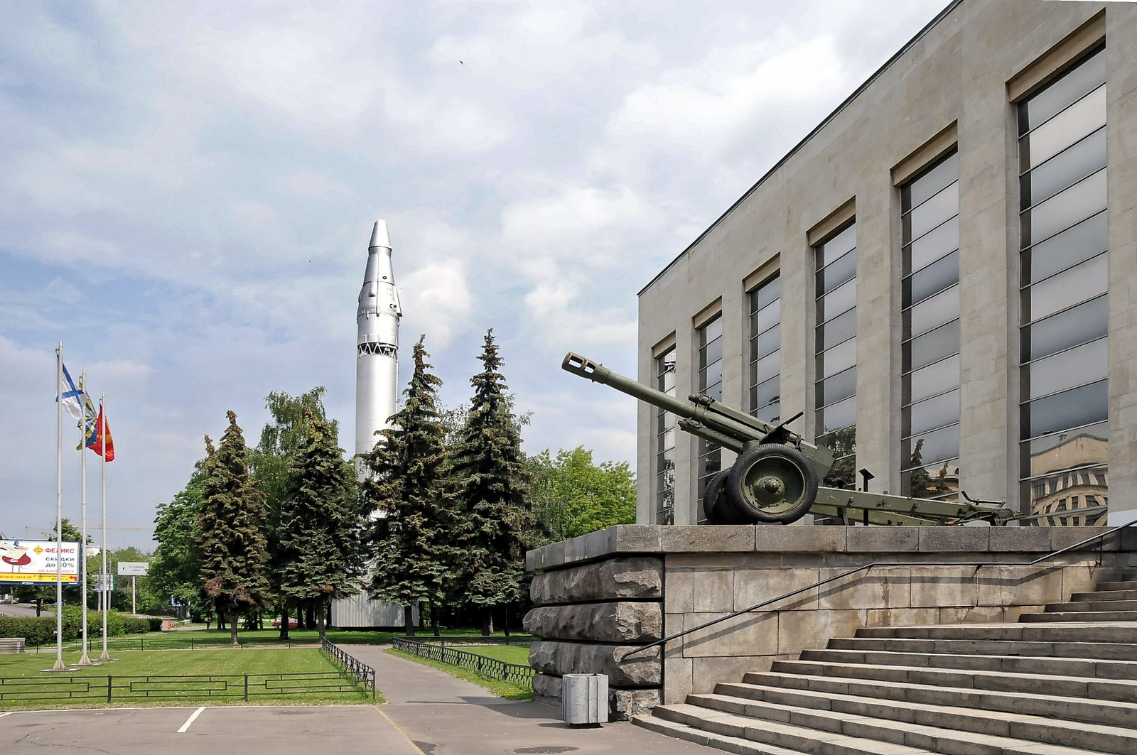 Entrance area of the Central Armed Forces Museum in Moscow.